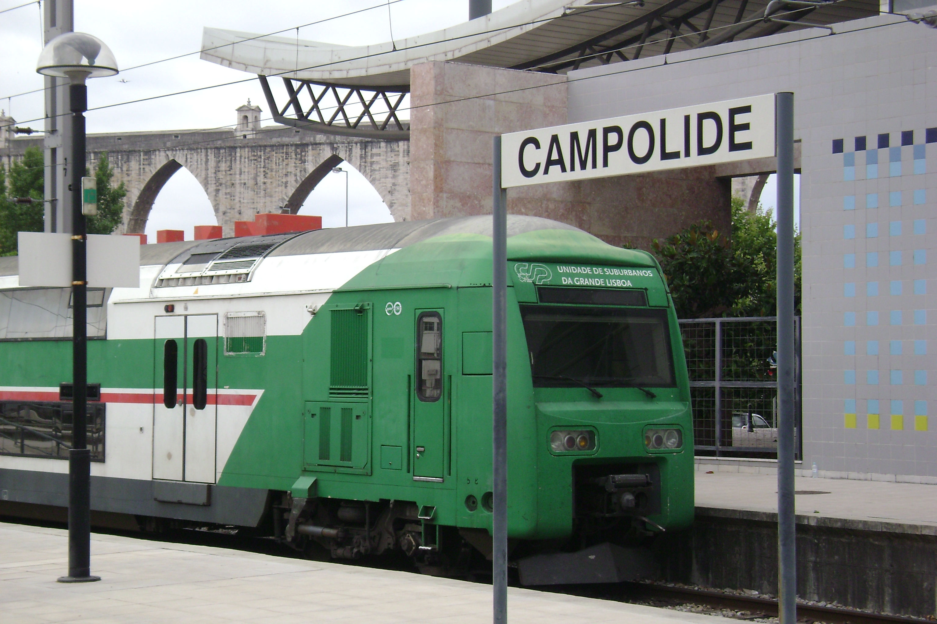 Lisbon, Portugal